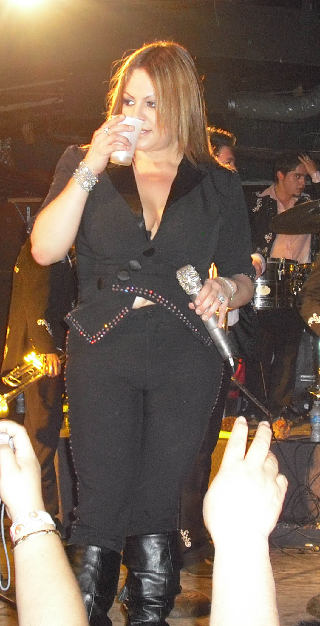 Jenni Rivera in a small concert/performance in Columbus, Ohio